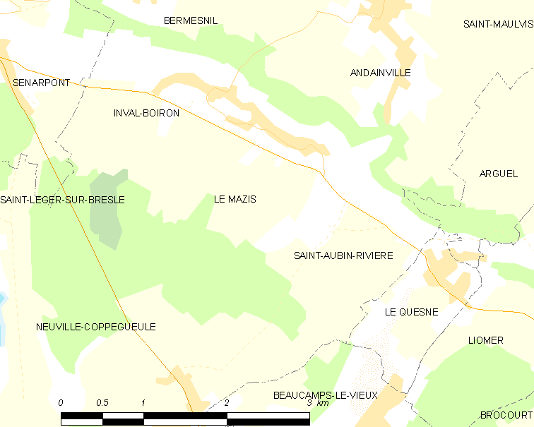 Map of French municipality Le Mazis